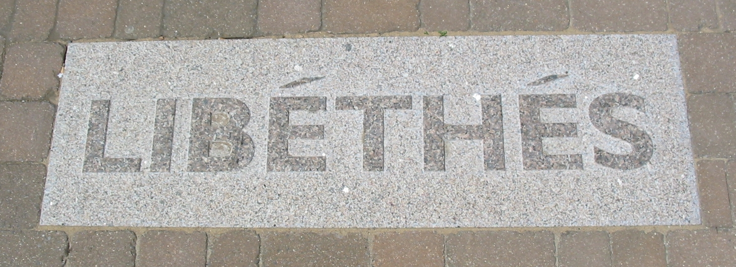 Inscription of word Libéthés (liberated in Jèrriais) at La Pièche dé l'Av'nîn, Jersey